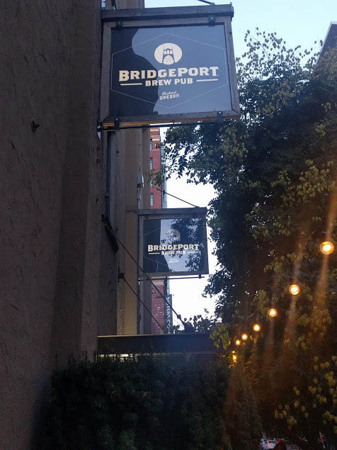 Photograph of the signs at the entrance to the BridgePort Brewing Company.